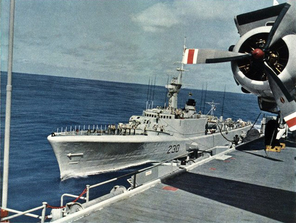 The Royal Canadian Navy destroyer HMCS Margaree (DDE 230) refueling from the U.S. Navy aircraft carrier USS Hornet (CVS-12). Hornet, with assigned Carrier Anti-Submarine Air Group 57 (CVSG-57), was deployed to the Western Pacific from 10 October 1963 to 15 April 1964.